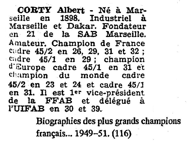 Short biography of Albert Corty with DOB and POB and sporting successes